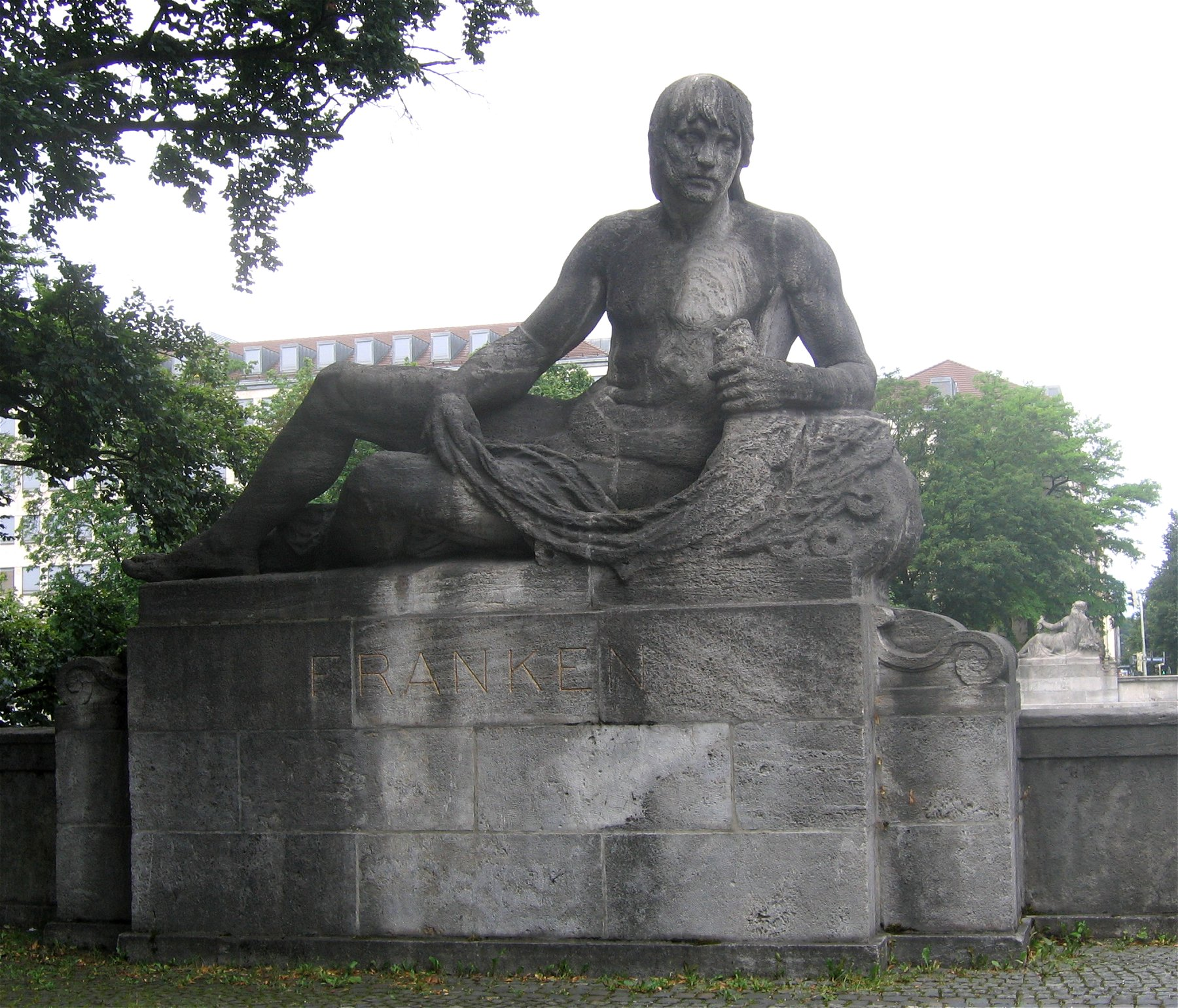 Sculpture "Franken" (Franconia) by Balthasar Schmitt at the bridge "Luitpoldbrücke", Munich, Germany